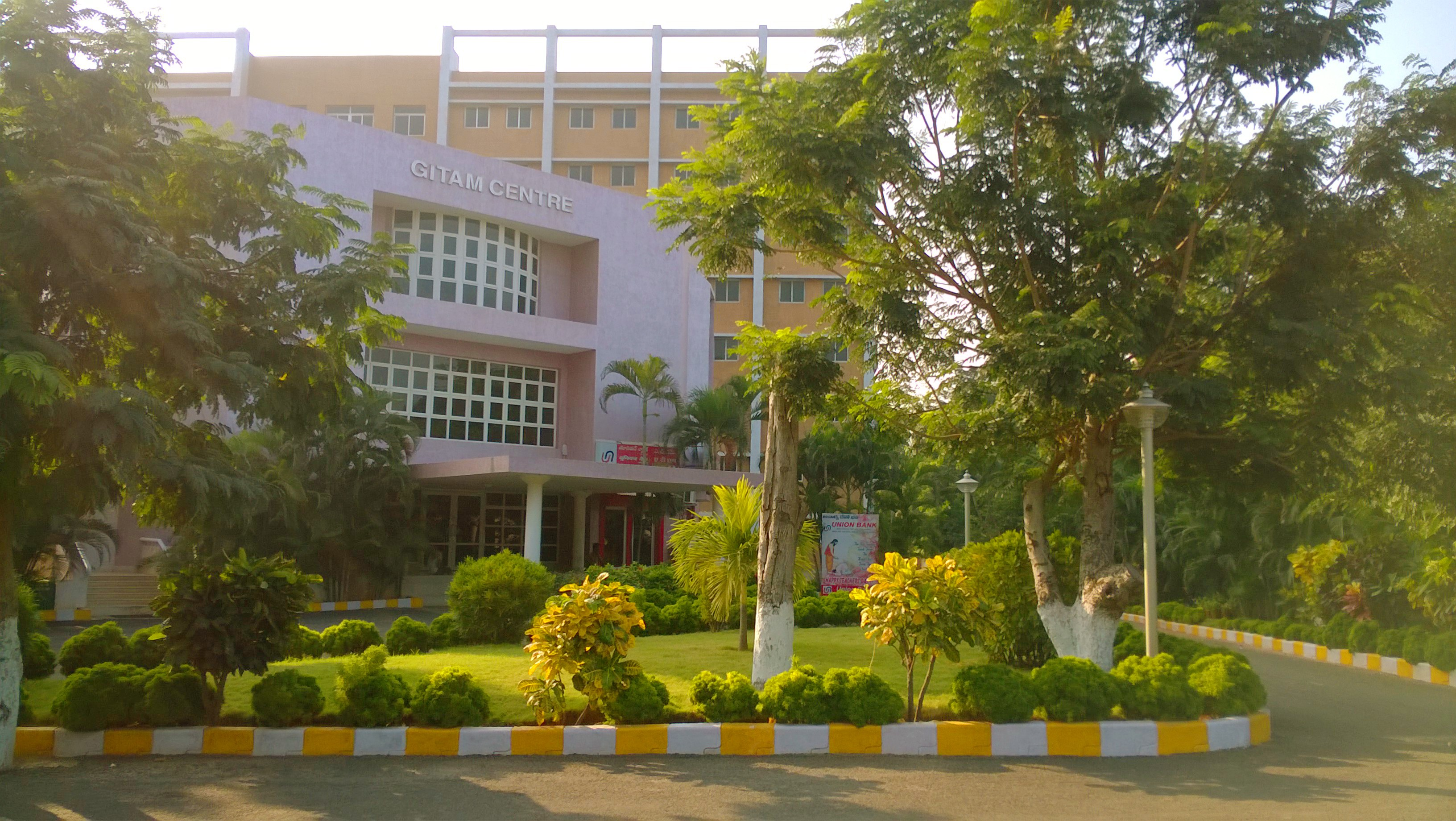 Gitam University Administrative office